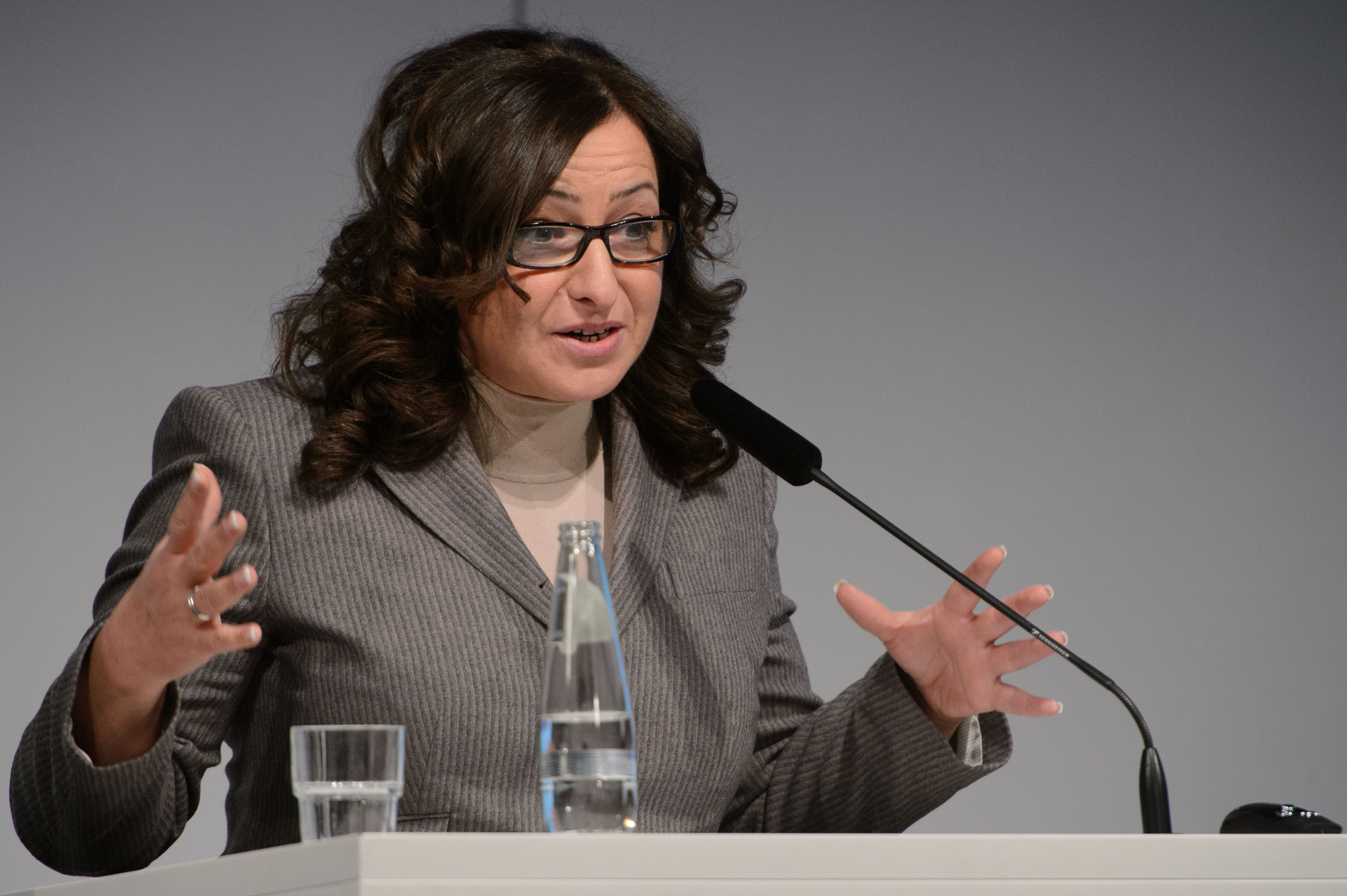 German politician Dilek Kolat, Berlin's senator for Labour, Integration and Women